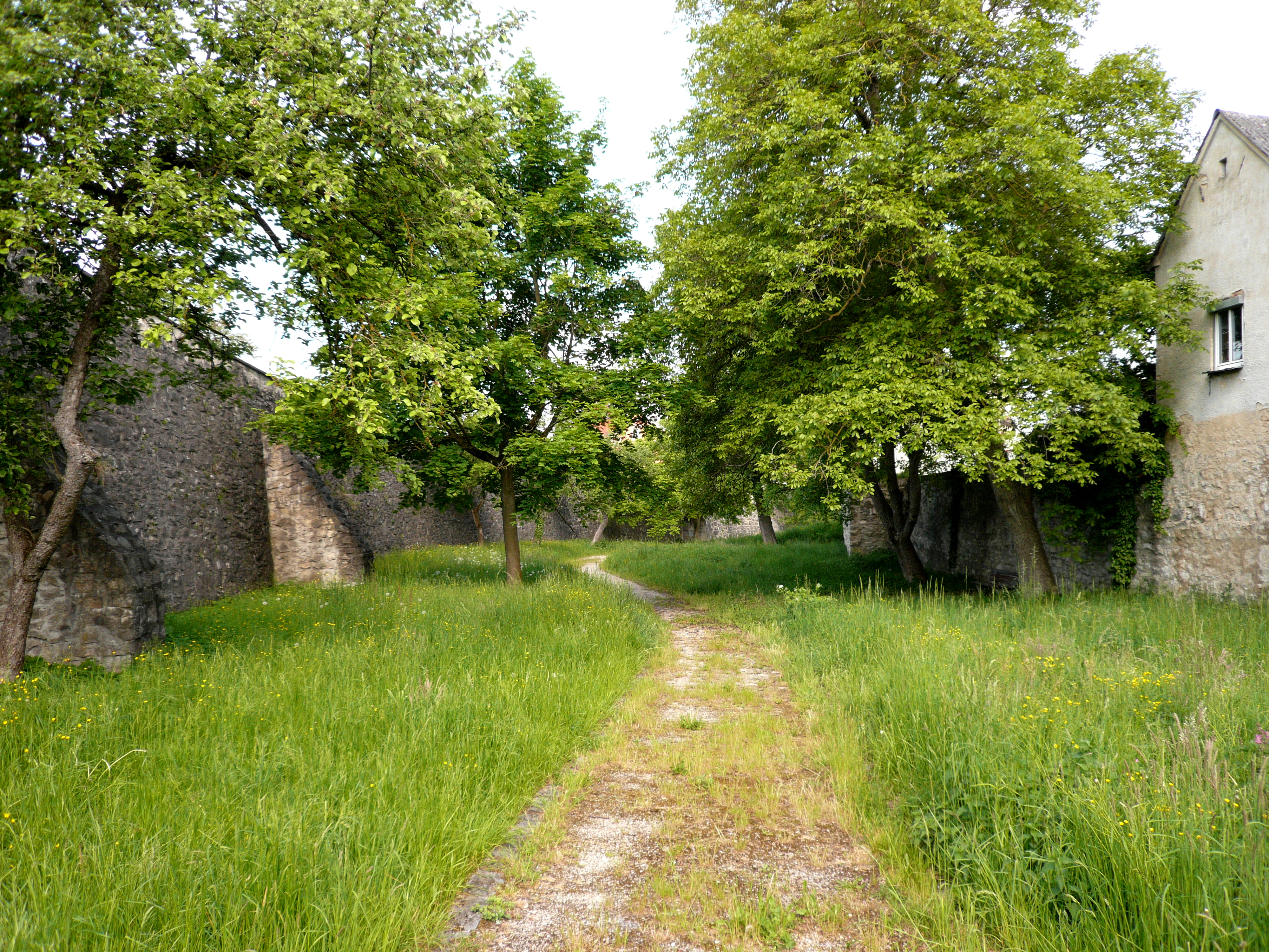 Town wall of Wemding, Bavaria